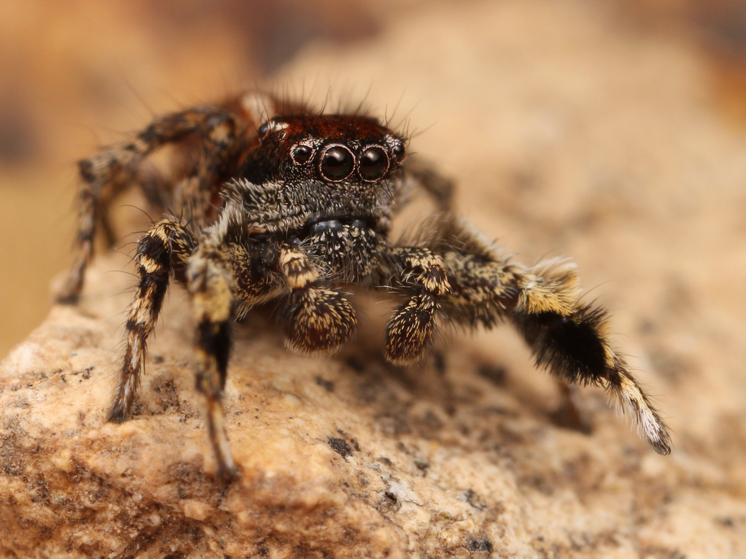 Adult male Habronattus peckhami jumping spider from Point Reyes National Seashore, Marin County, California